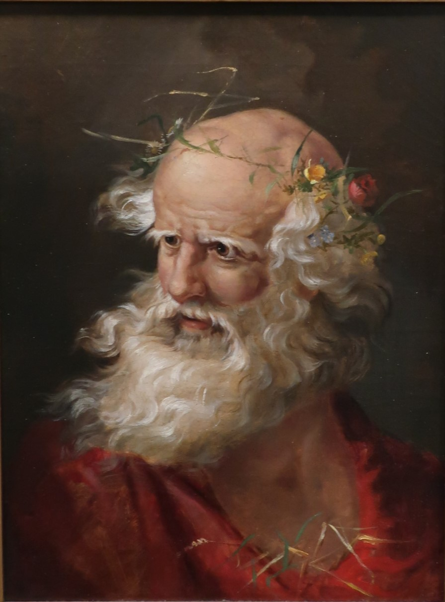 King Lear